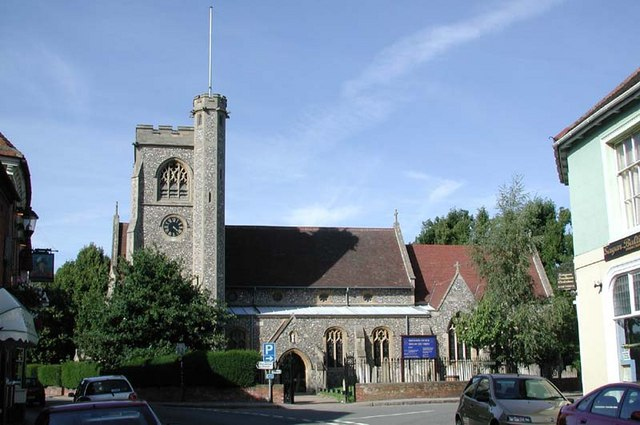 St Mary the Virgin, Welwyn, Herts